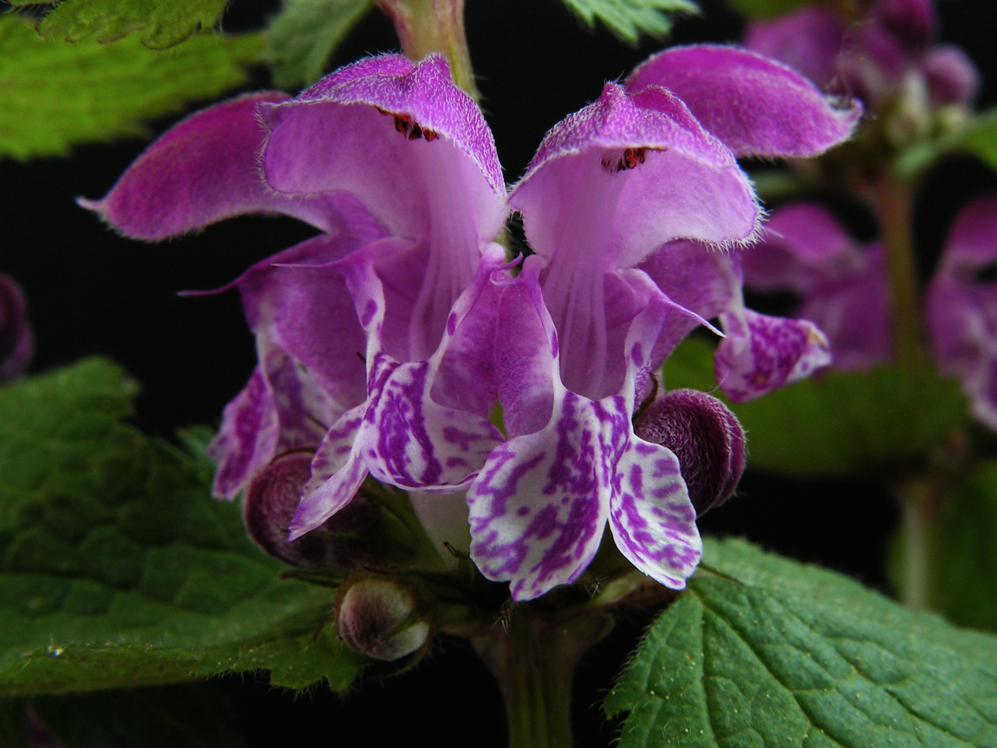 Flowers of Spotted deadnettle. Height of the individual flower is appr. 2 cm.